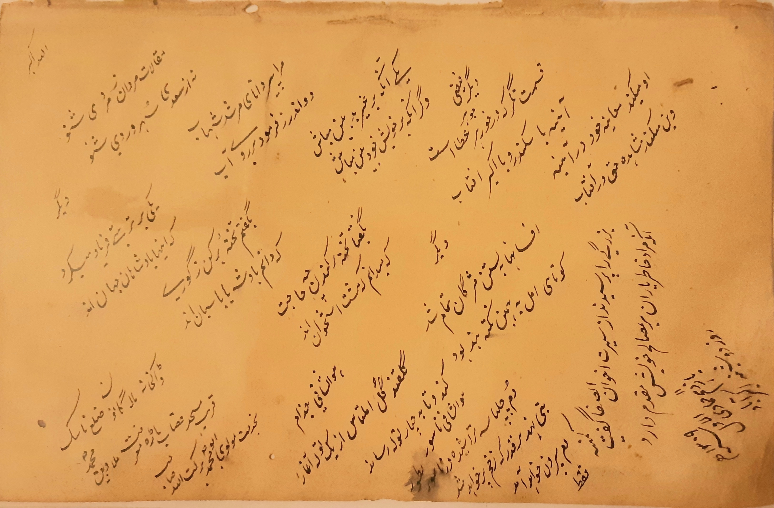 Manuscript of persian poetry handwritten of Shah Akbar Abulolai Danapuri.